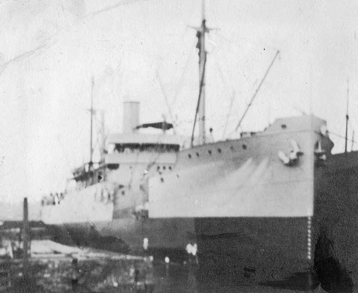 Commercial collier SS Munsomo, probably at the time of her 1917 inspection in the 3rd Naval Distric for possible US Navy service. She later served in the US Navy as cargo ship USS Munsomo (ID-1607).